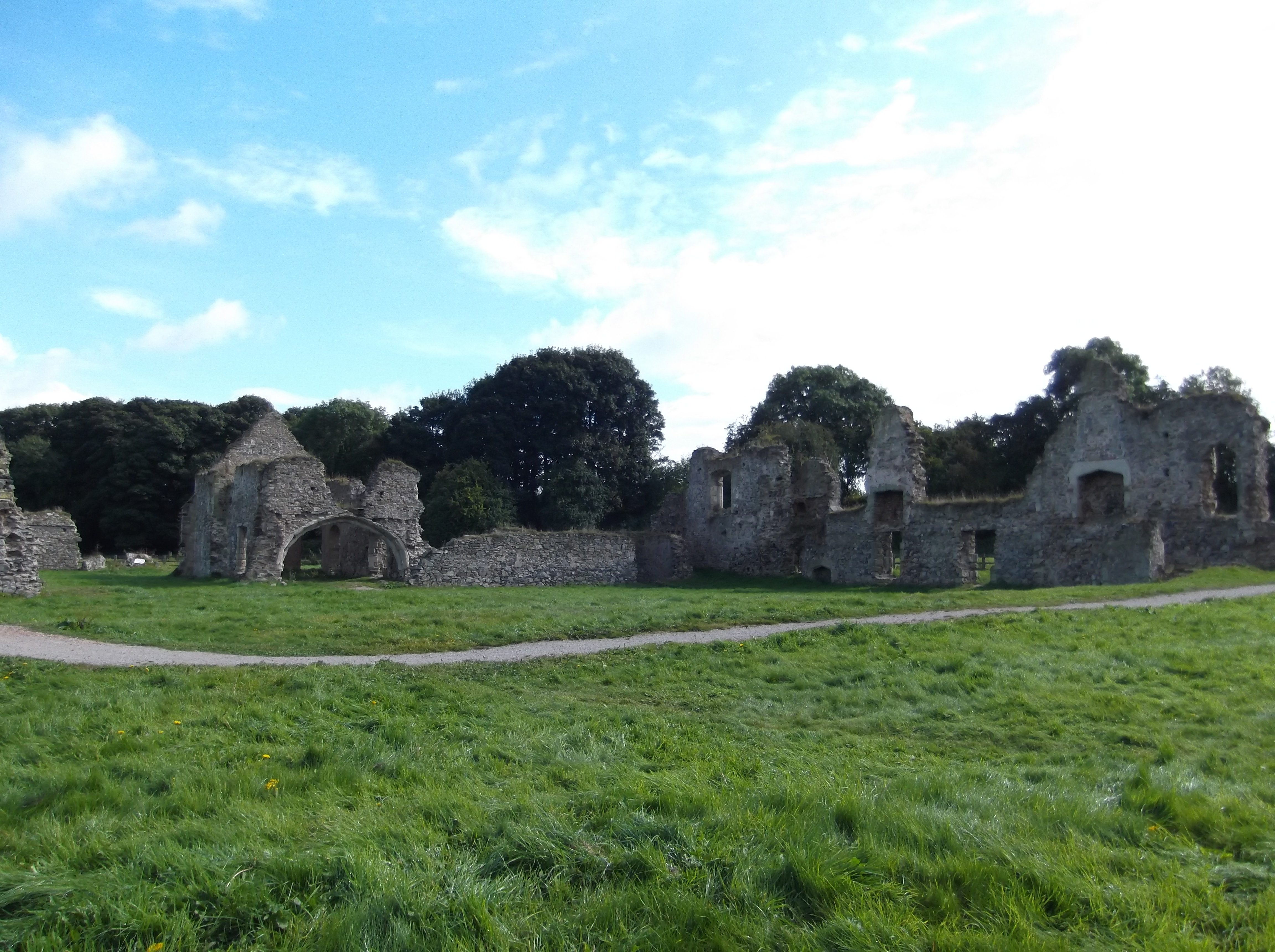 The ruin of Grace Dieu Priory, Leicestershire, England: view across the cloister, of the chapter house and south range, from the west end of the nave of the conventual church